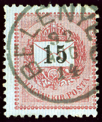 Kingdom of Hungary 15 kr stamp, June 1888 issue, cancelled BELENYES, Beiuș Romania in 1892